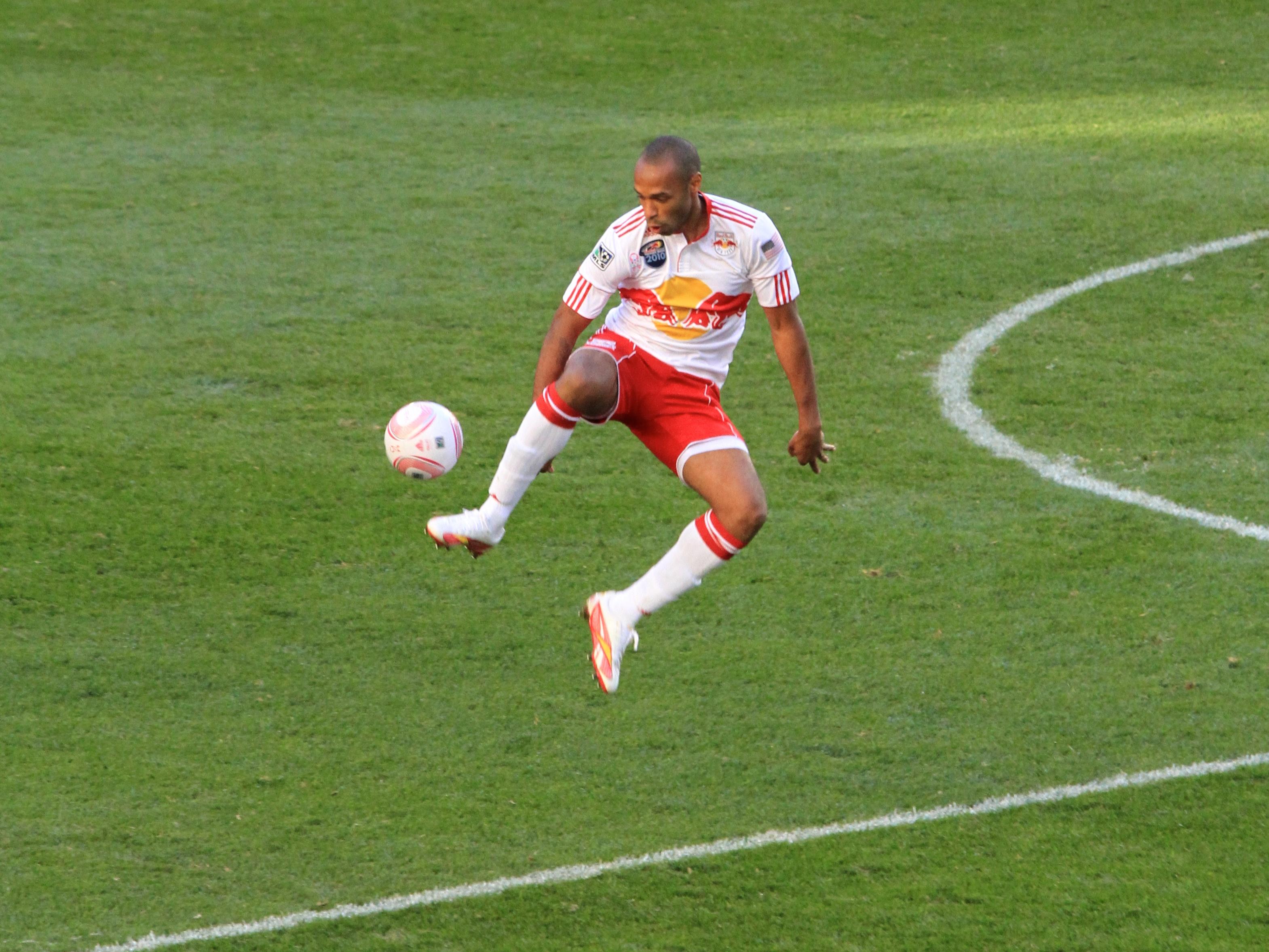 Red Bull New York's own TH14 Thierry Henry, making a play on the ball midfield versus Real Salt Lake.